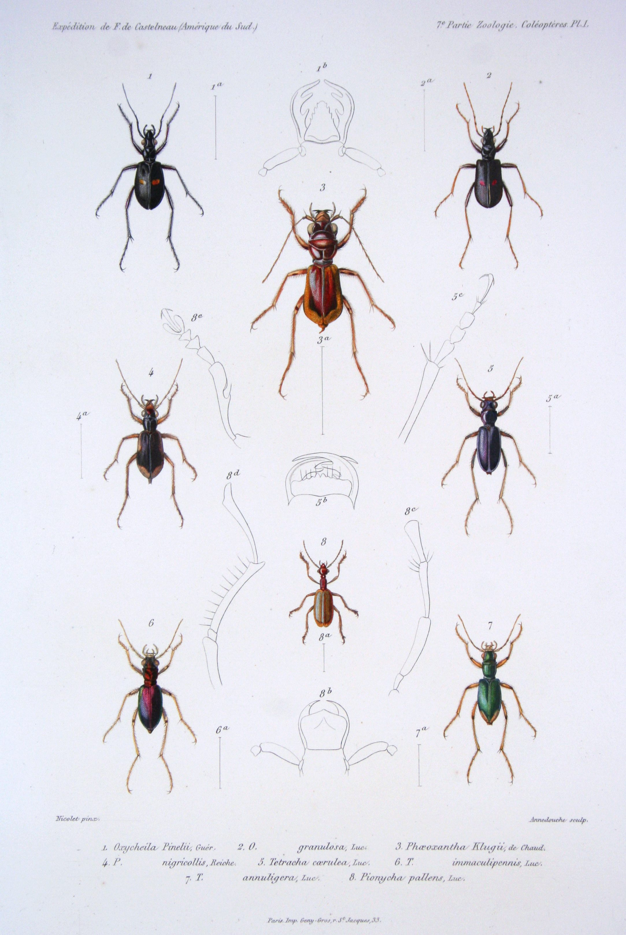 Oxycheila Pinelii Guér. = Oxycheila pinelii Guerin-Meneville, 1843 (1a: length, 1b: mouthparts from dorsal) O[xycheila] granulosa Luc. = Oxycheila distigma Gory, 1831 (2a: length) Phæoxantha Klugii de Chaud. = Megacephala klugii Chaudoir, 1850 (3a: length) P[hæoxantha] nigricollis Reiche = Metriocheila nigricollis (Reiche, 1842) (4a: length) Tetracha cœrulea Luc. = Megacephala coerulea Lucas, 1857 (5a: length, 5b: mouthparts from dorsal, 5c: foreleg) T[etracha] immaculipennis Luc. = Megacephala (sobrina) sommeri Chaudoir, 1850 (6a: length) T[etracha] annuligera Luc. = Megacephala annuligera Lucas, 1857 (7a: length) Pionycha pallens Luc. = Pionycha pallens Lucas, 1857 (8a: length, 8b: mouthparts from dorsal, 8c: antenna, 8d: maxillary palp, 8e: foreleg)